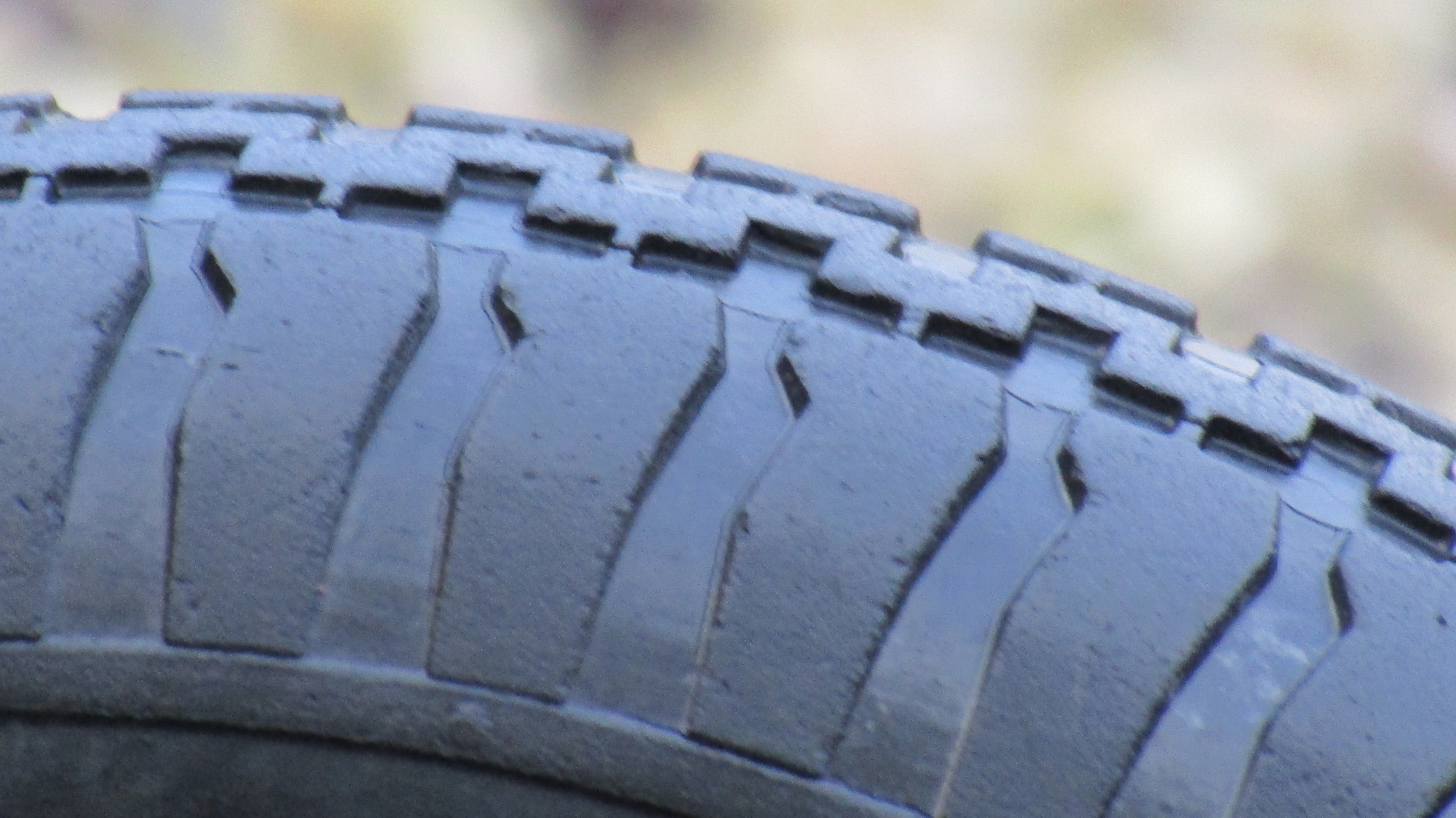 Close up macro shot of a wheelbarrow tyre